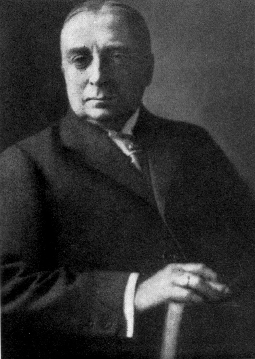 Photograph of German writer Victor Auburtin (1870-1928)